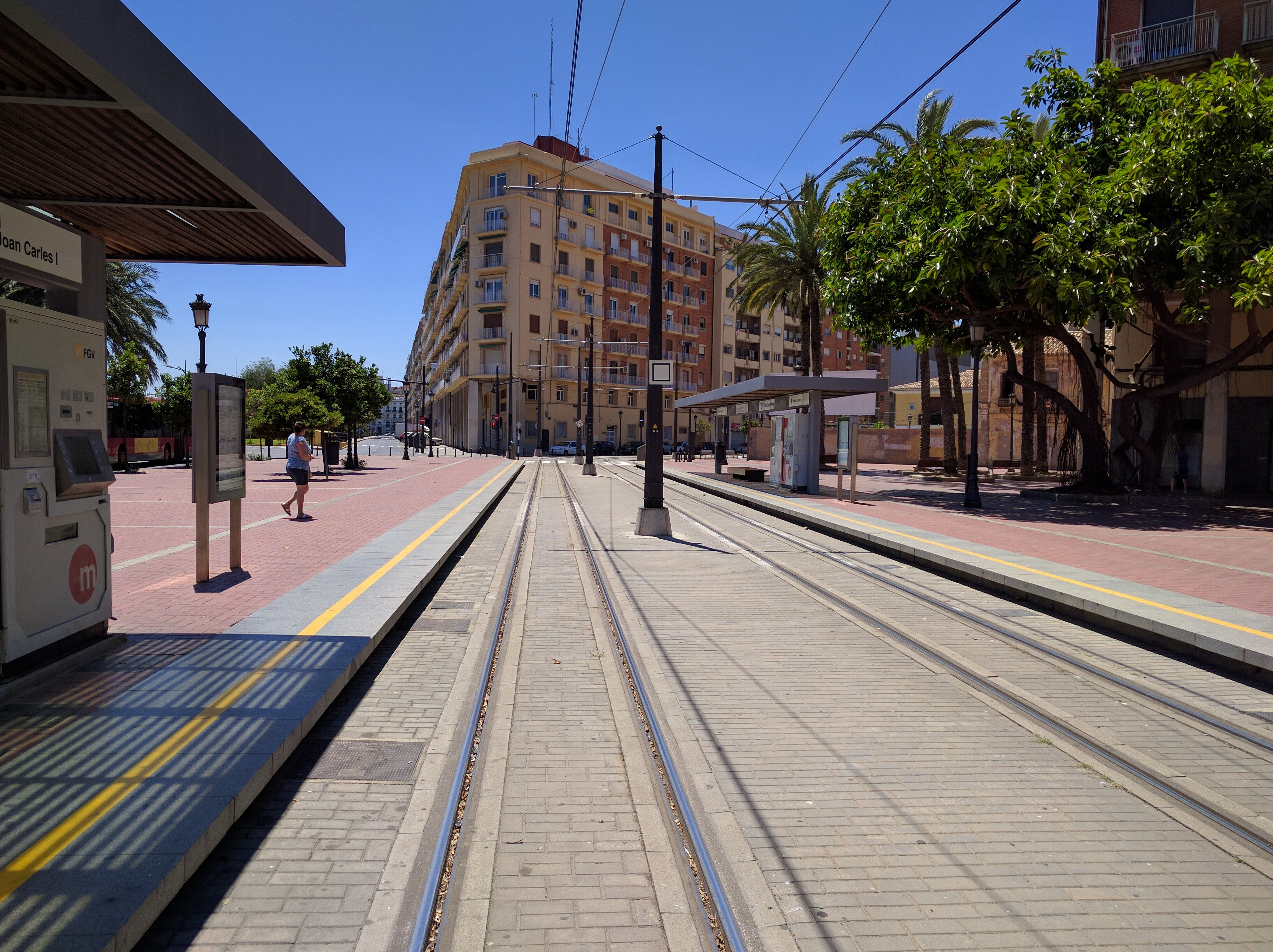 Platforms of the Grau-Canyamelar station of Metrovalencia.